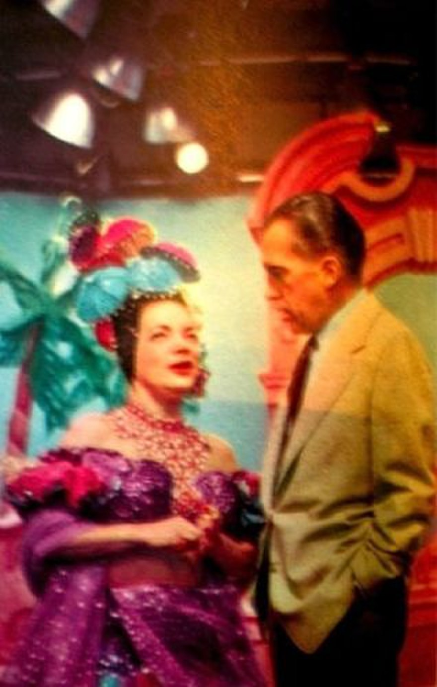 Carmen Miranda on The Ed Sullivan Show. Episode #7.1 (13 Sep. 1953)